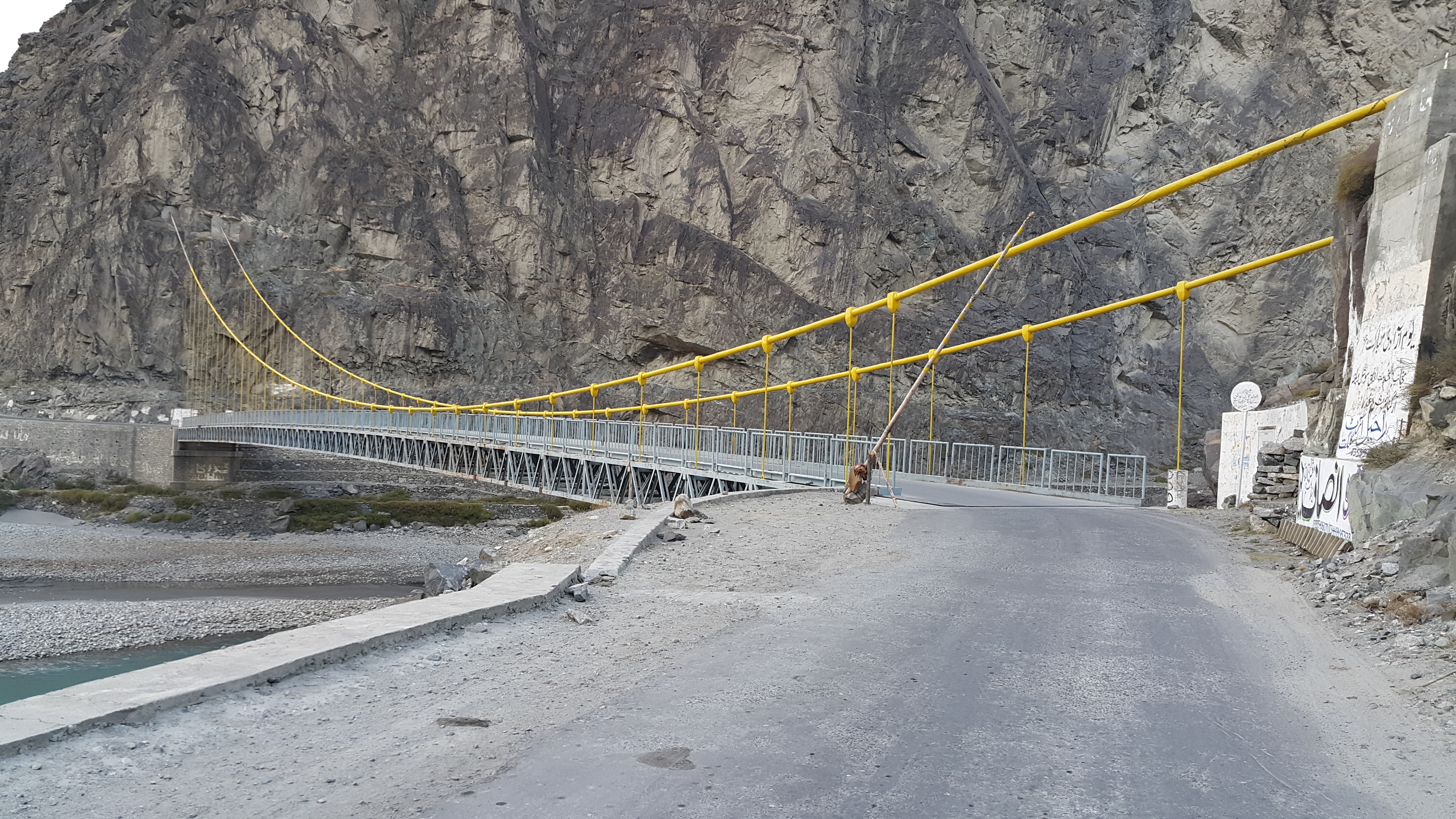 This is the picture of Kanchey Bridge located in District Ghizer which was inaugurated by Chief Executive of Northern Areas Mr Mohammad Afzal Khan in 1994.